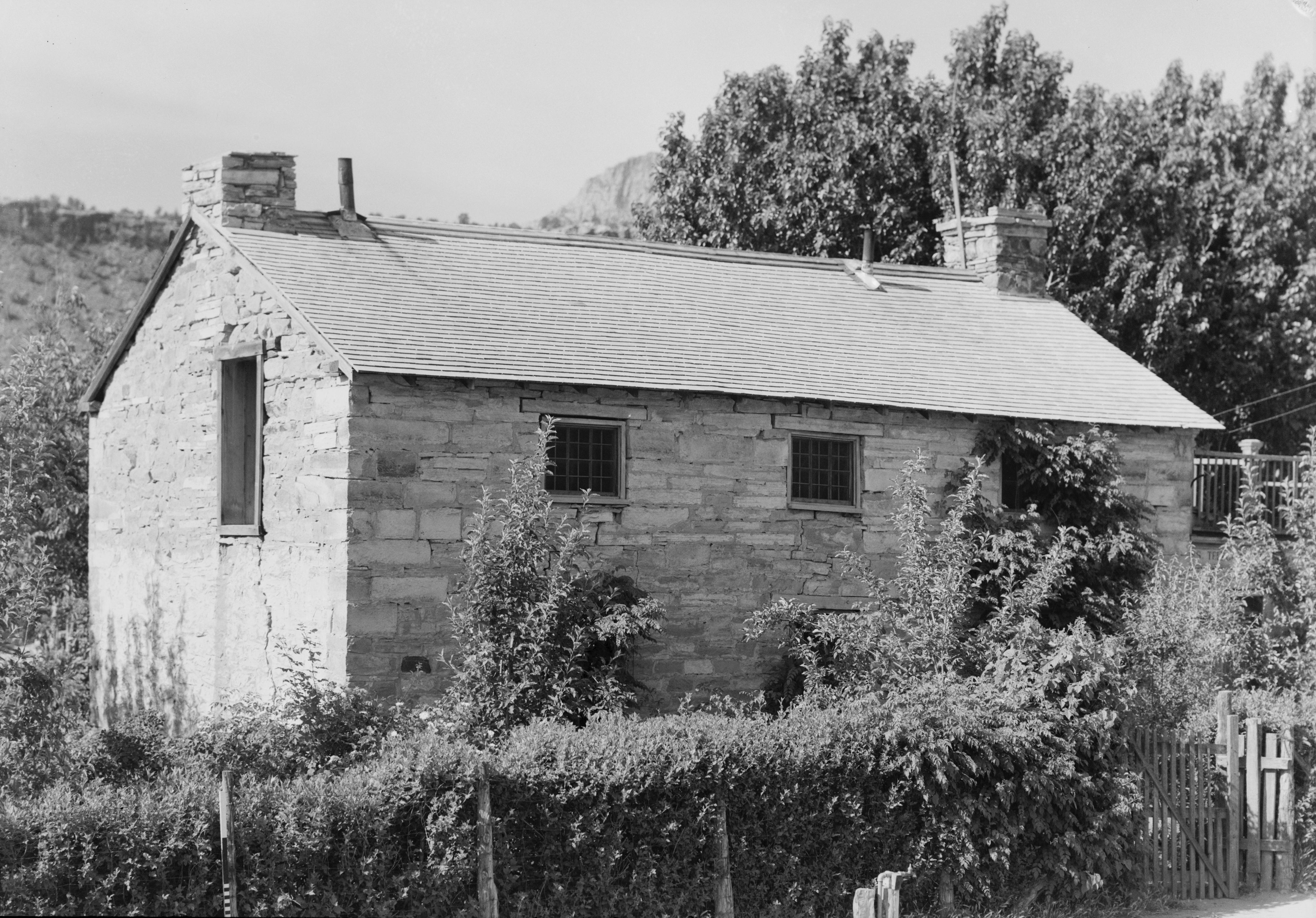 Exterior of the Deseret Telegraph and Post Office, located along State Route 9 in Rockville, Utah, United States. Built in 1864, it is listed on the National Register of Historic Places.